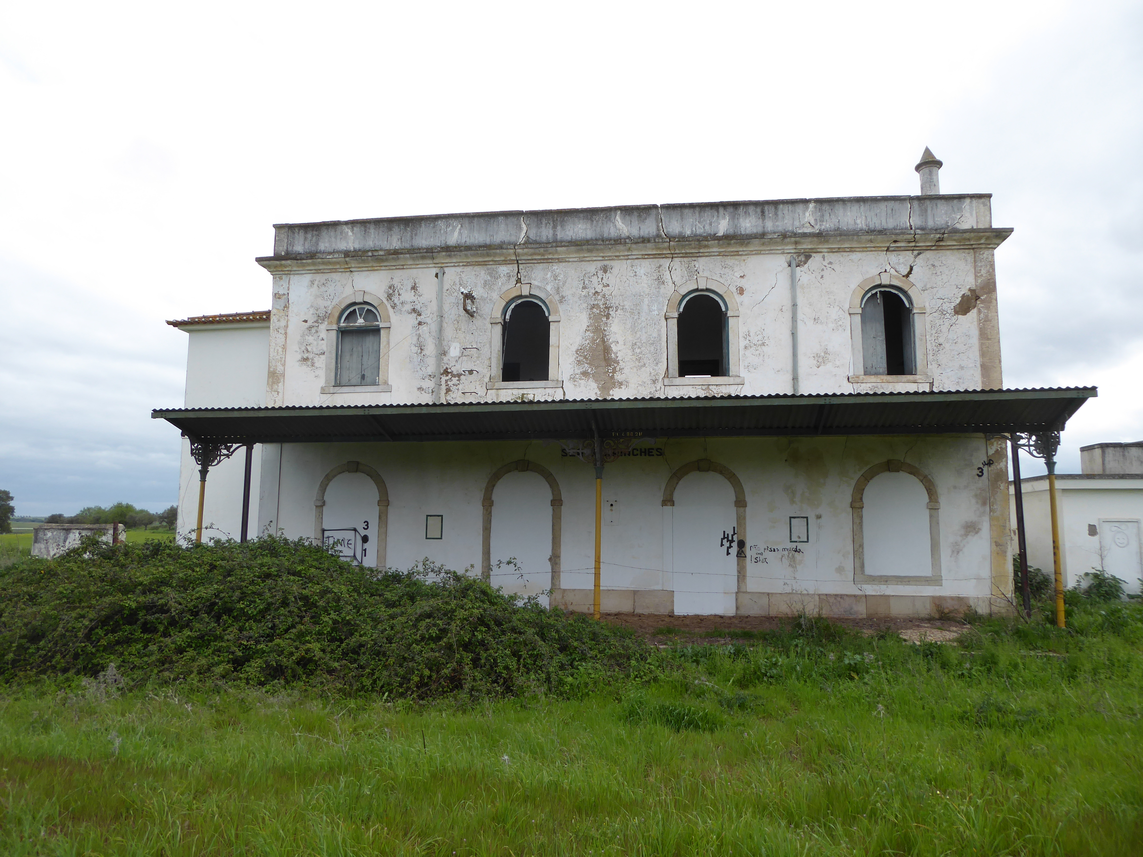 Serpa-Brinches train station, Portugal